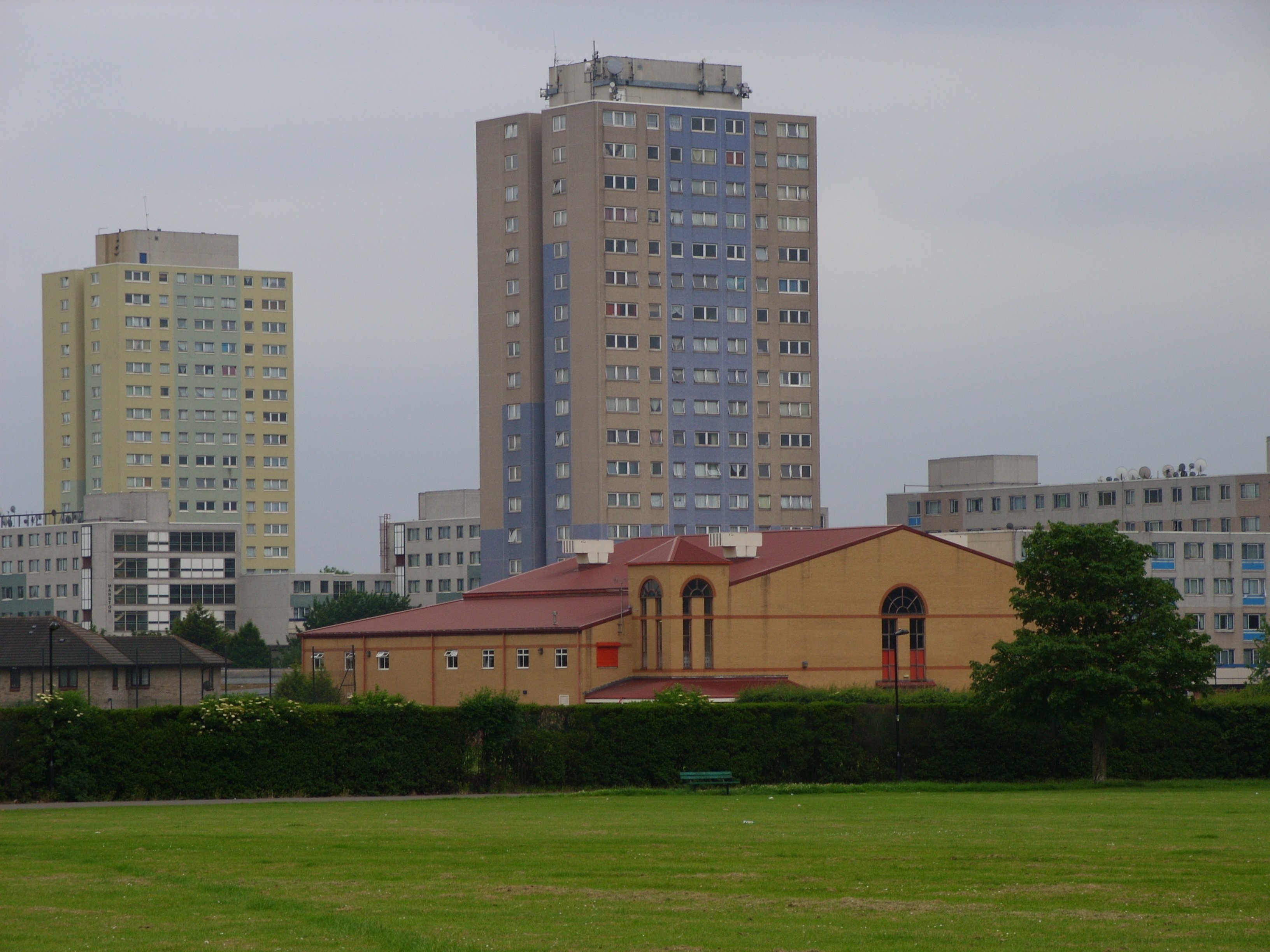 Kenley and Northolt apartment blocks, Broadwater Farm, London N17